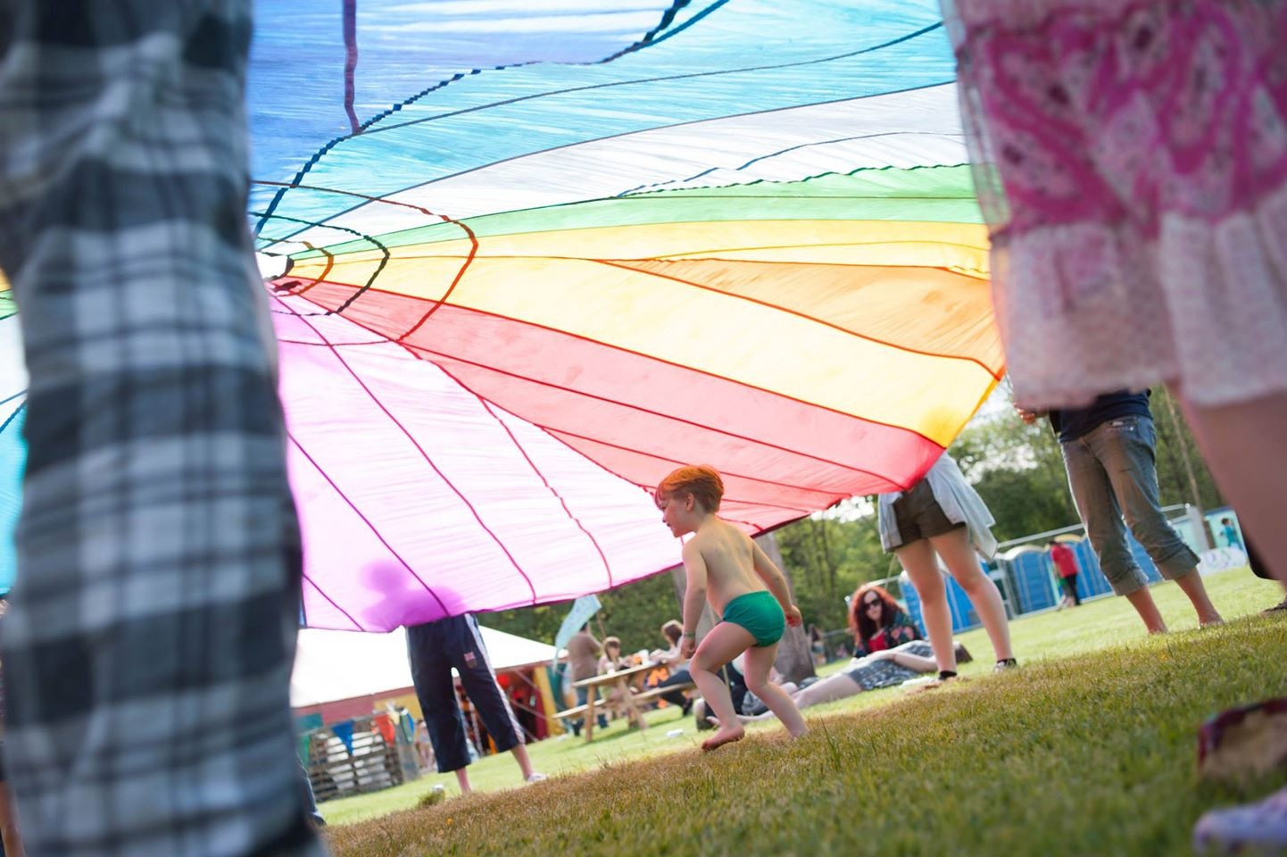 rainbow parachute